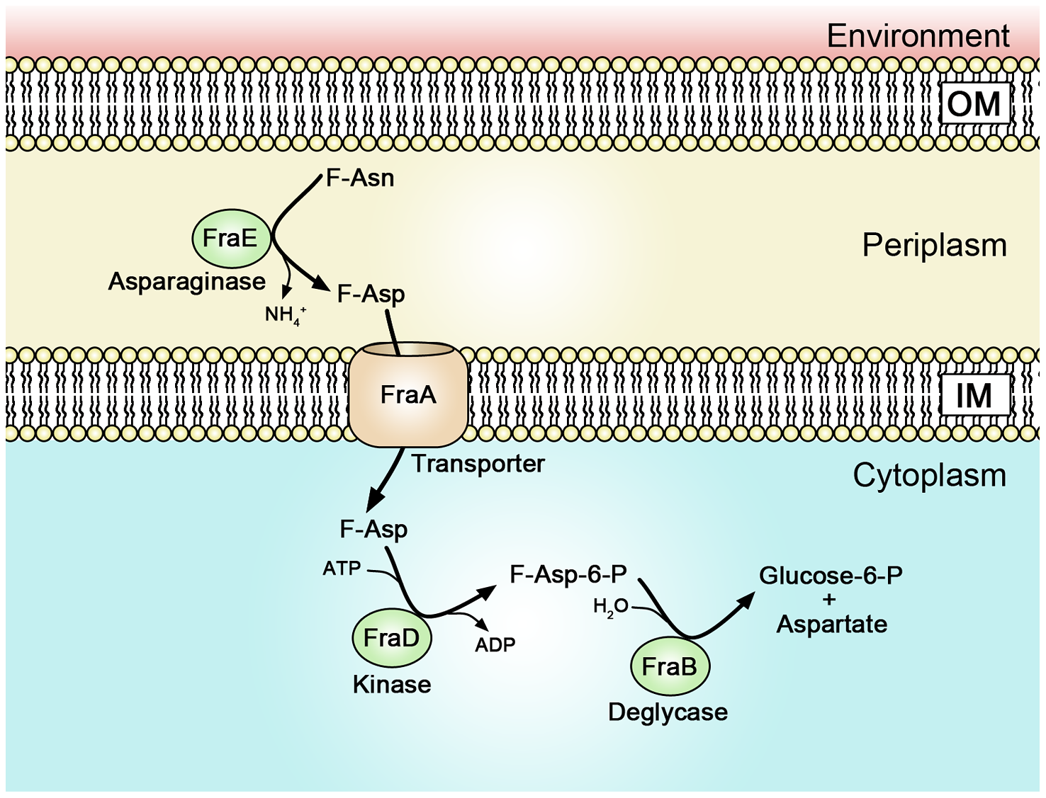 proposed outline of how Salmonella uses Fra proteins to take in Fructose-Asparagine. original caption: "A proposed model of Fra protein localization and functions. A proteomic survey of subcellular fractions of Salmonella previously identified FraB (the deglycase) as cytoplasmic and FraE (the asparaginase) as periplasmic. Therefore, it is possible that F-Asn is converted to F-Asp in the periplasm by the asparaginase and that the transporter and kinase actually use F-Asp as substrate rather than F-Asn. The FraD kinase of Salmonella shares 30% amino acid identity with the FrlD kinase of E. coli. FrlD phosphorylates F-Lys to form F-Lys-6-P. Therefore, we hypothesize that FraD phosphorylates F-Asp to form F-Asp-6-P. The FrlB deglycase of E. coli shares 28% amino acid identity with FraB of Salmonella. The FrlB deglycase converts F-Lys-6-P to lysine and glucose-6-P. so we hypothesize that FraB of Salmonella converts F-Asp-6-P to aspartate and glucose-6-P.